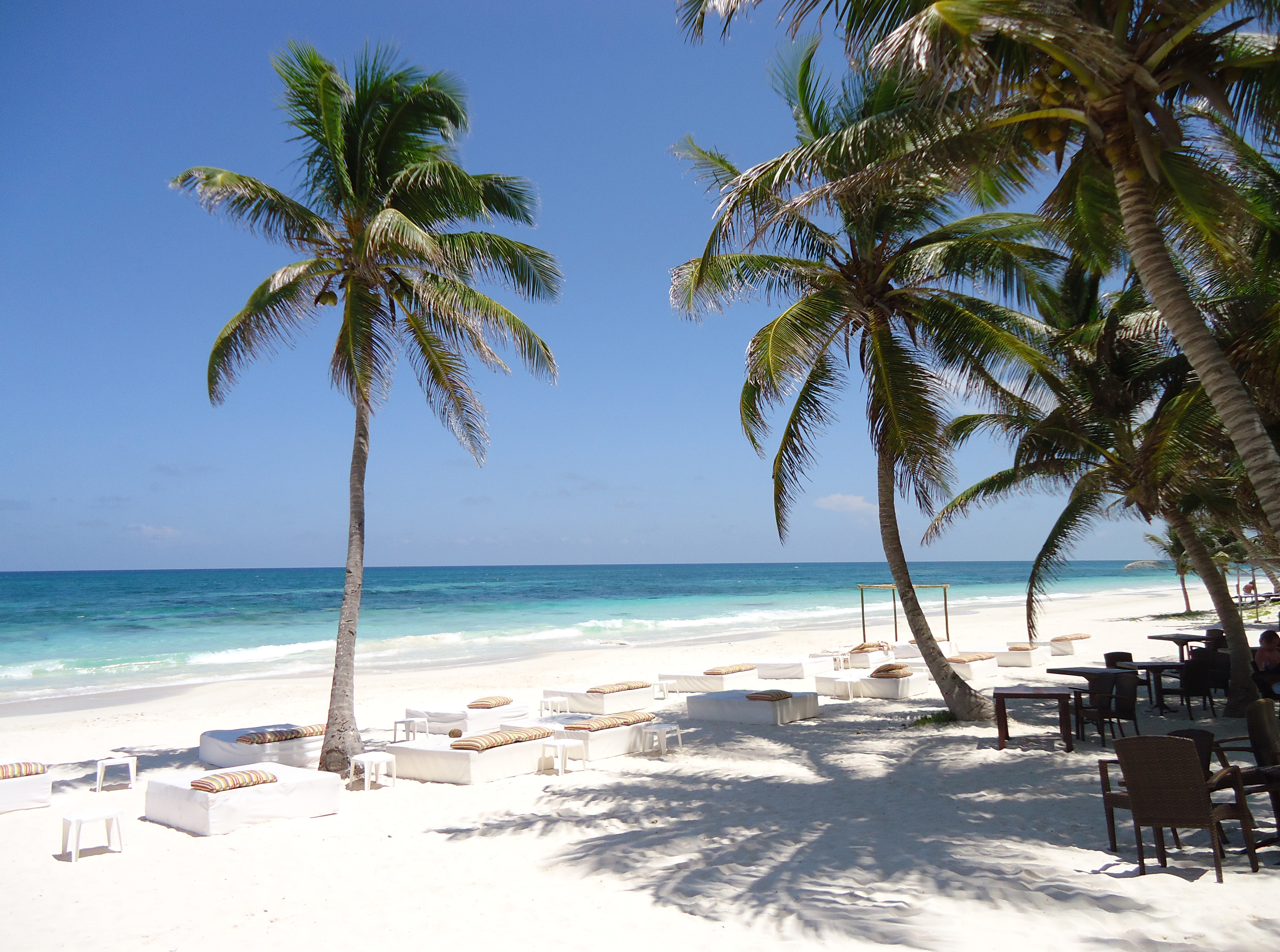 Hotel beach in Tulum, Quintana Roo, Mexico